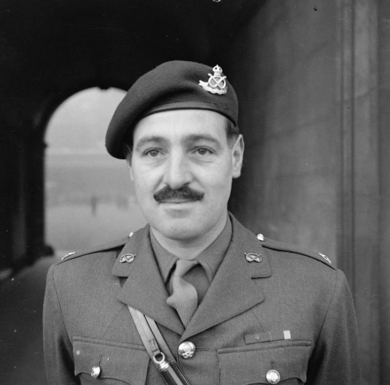 Photograph of Robert Henry Cain VC taken at Buckingham Palace after his investiture.